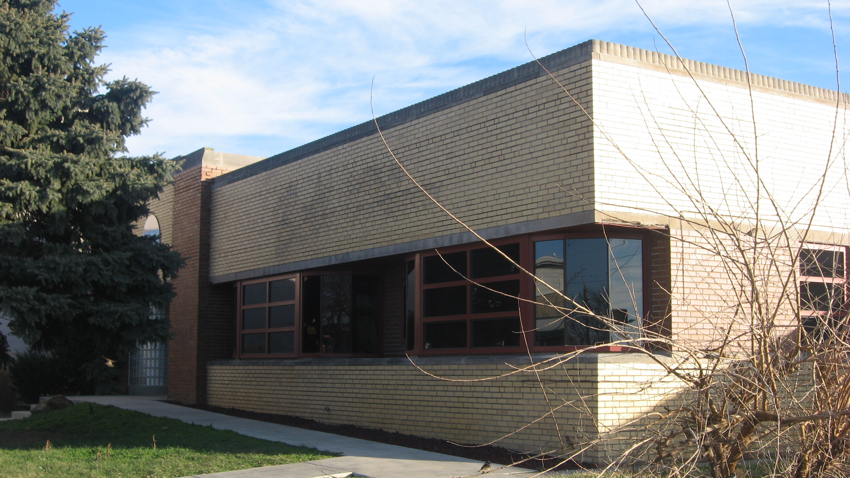 Front of Gaseteria, Inc. (now an ACLU office), located at 1031 E. Washington Street in Indianapolis, Indiana, United States. Built in 1941, it is listed on the National Register of Historic Places.